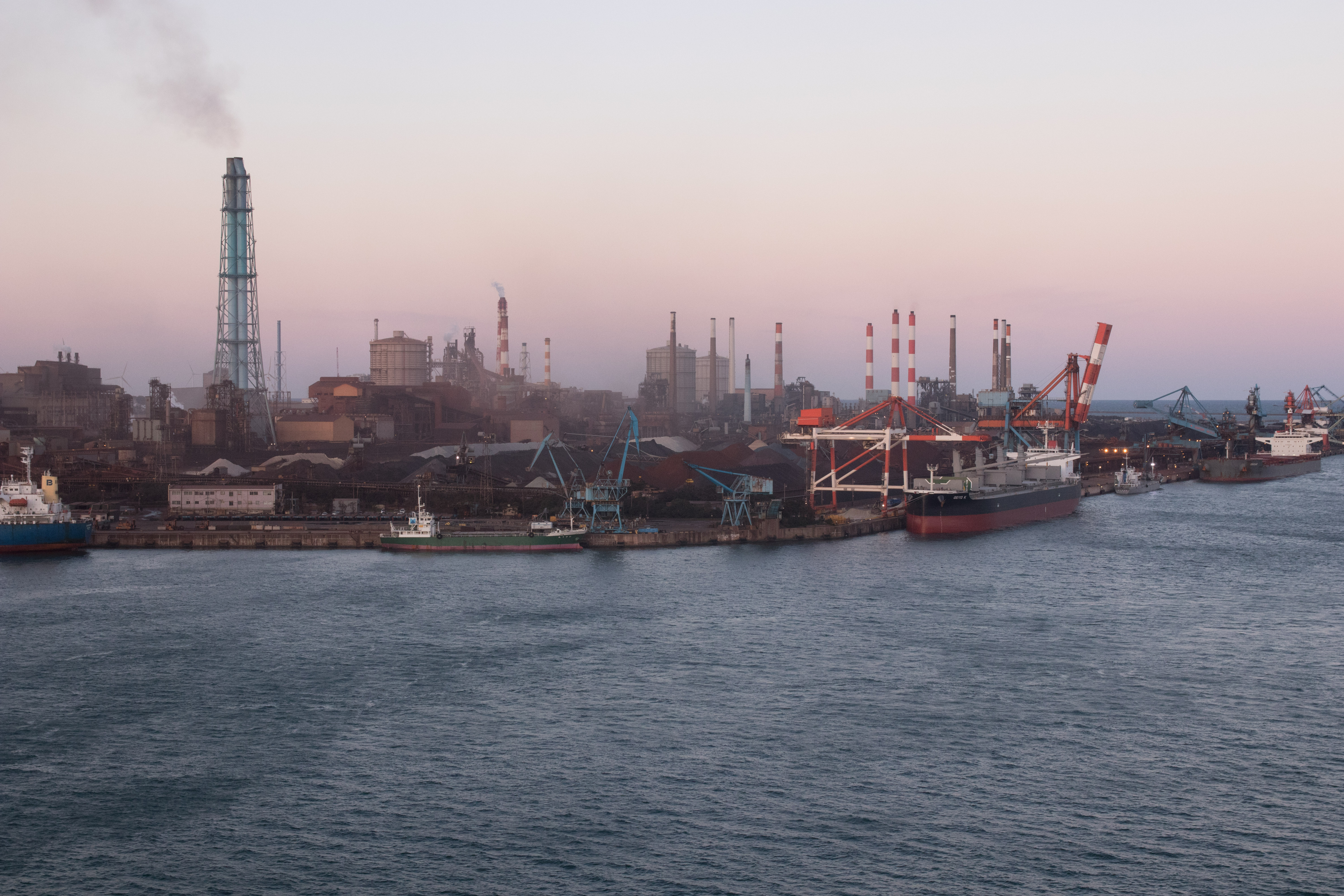 Kashima steel works, Kashima City, Ibaraki Pref., Japan